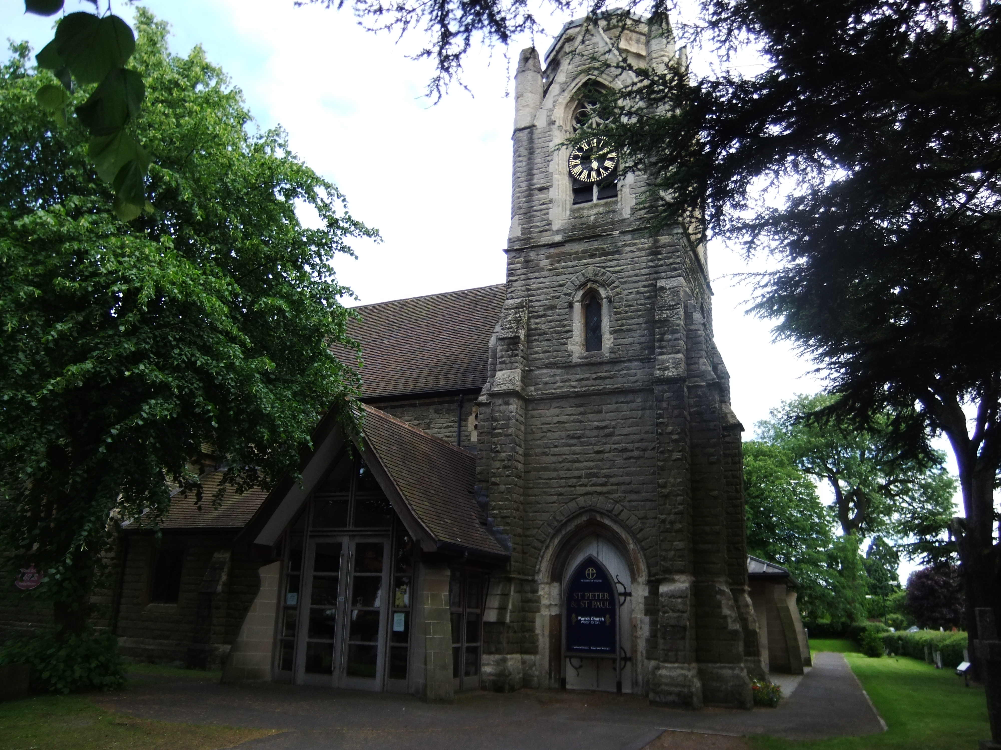 Grade II